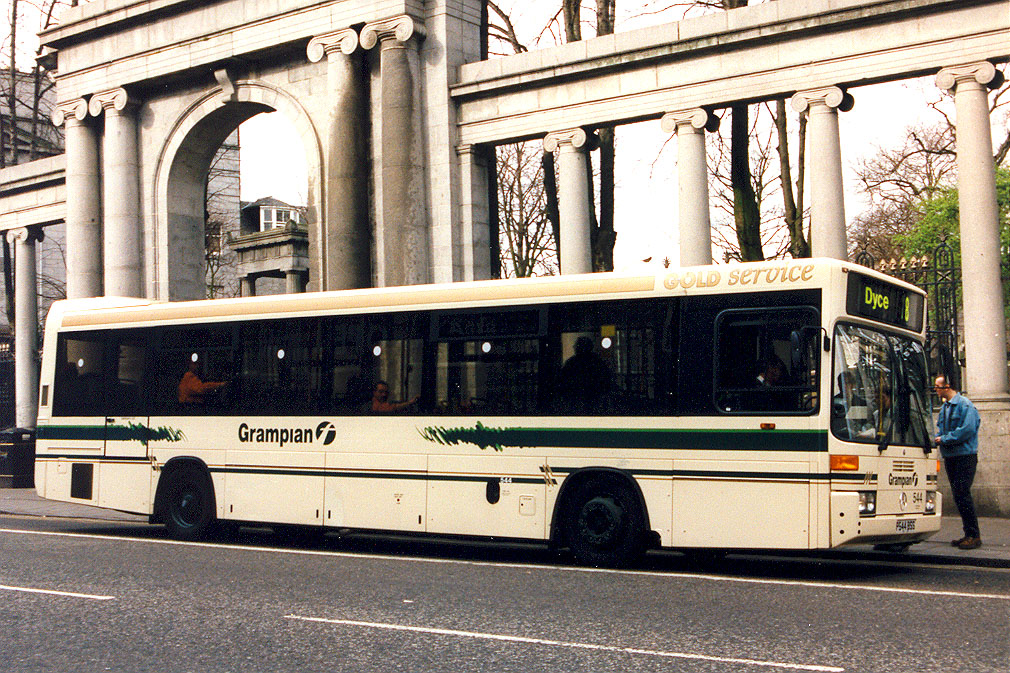 First Aberdeen bus 544 (reg. P544 BSS), a 1997 Mercedes-Benz O 405 single-decker with Optare Prisma bodywork, pictured at the stops on Union Street in Aberdeen. At the time of this photograph it was just over a year old, having been delivered new to the company in February 1997 when it was, as Grampian Regional Transport Ltd, a subsidiary of the FirstBus plc group. FirstBus employed a corporate identity of applying a standard typeface and flying f logo to each subsidiary's own fleetname and livery (which in GRT's case was simply 'Grampian' and this cream with green scheme). The additional Gold Service branding was part of a quality improvement drive by the company, associated with the delivery of new vehilces like this. The days of this corporate scheme were numbered however. Days earlier, on 27 February 1998, Grampian Regional Transport Ltd had been renamed First Aberdeen Ltd, as part of the process that saw FirstBus become FirstGroup, and the adoption of an even more uniform corporate style, with a standard livery of white, pink and purple and 'First' f fleetnames in the same corporate typeface, for all companies. Subsidiaries would only being identified by a much smaller geographic identifier tucked away over the wheelarches (in GRT's case being 'Aberdeen'). This was initially only to be applied to new buses, to mark them out as the new style of low floor buses. 544, being one of the last step entrance designed buses, was instead treated to a hybrid version, whereby the local livery was left as is, but the large 'Grampian' fleetname was removed leaving a space, and the First f fleetname / Aberdeen identifier applied in green. Eventually the last remaining step entrance buses also received the corporate livery. 544 also eventually received the national fleetnumber 60444. It was later transferred to First Manchester.